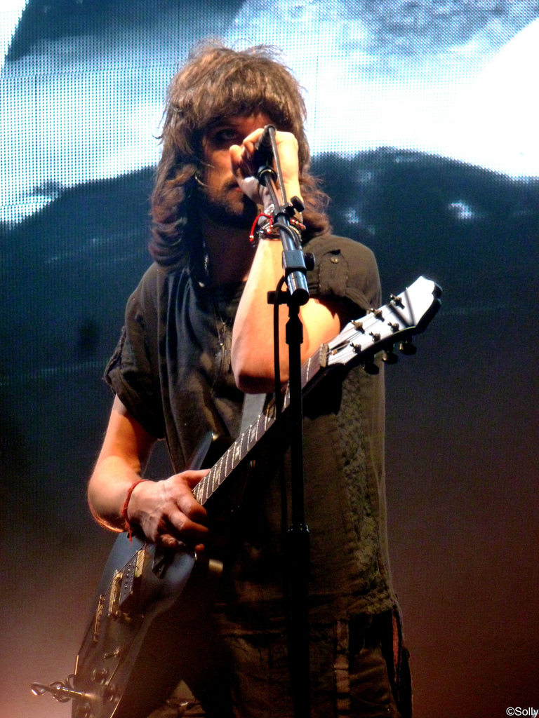 Kasabian instrumentalist frontman live at Paris in 2011